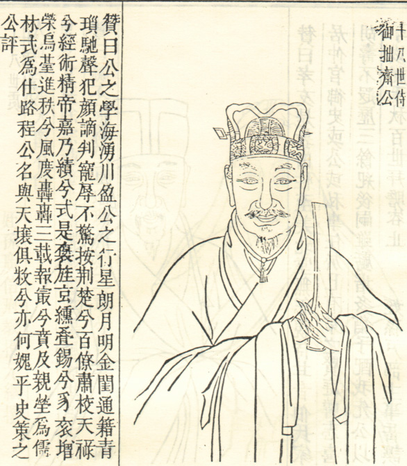 Chen Dao Qian, politician of the Ming Dynasty.